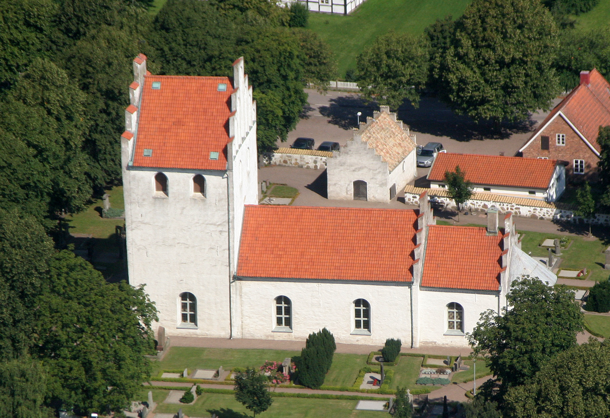 Jonstorp Church in Höganäs Municipality, Sweden.